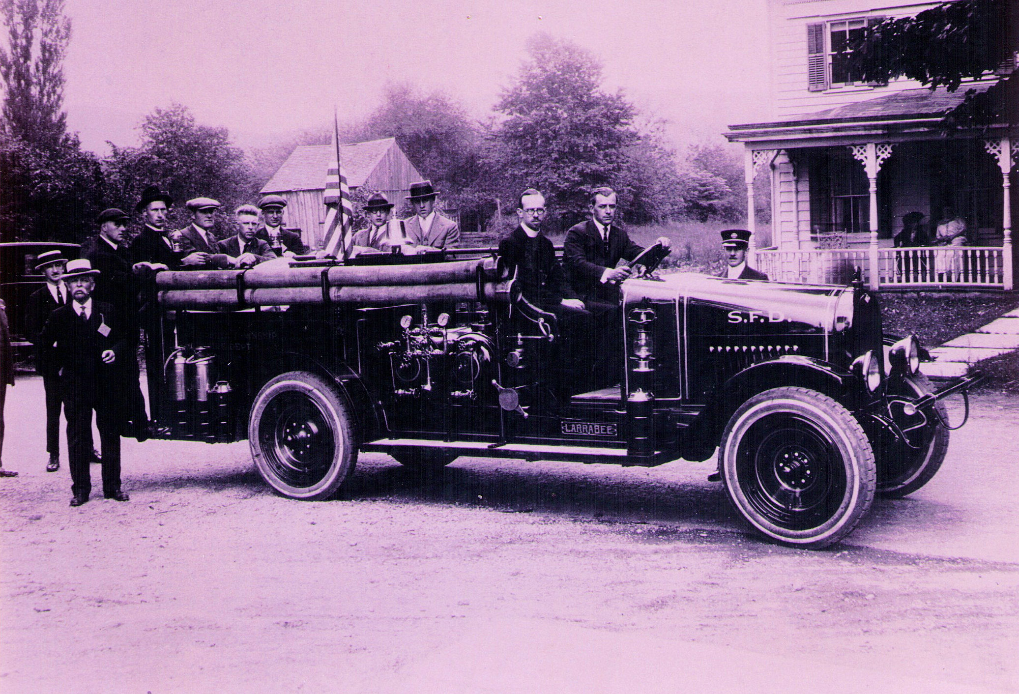 Father Ford in the fire truck The vehicle is a c. 1927 Larrabee Speed Six